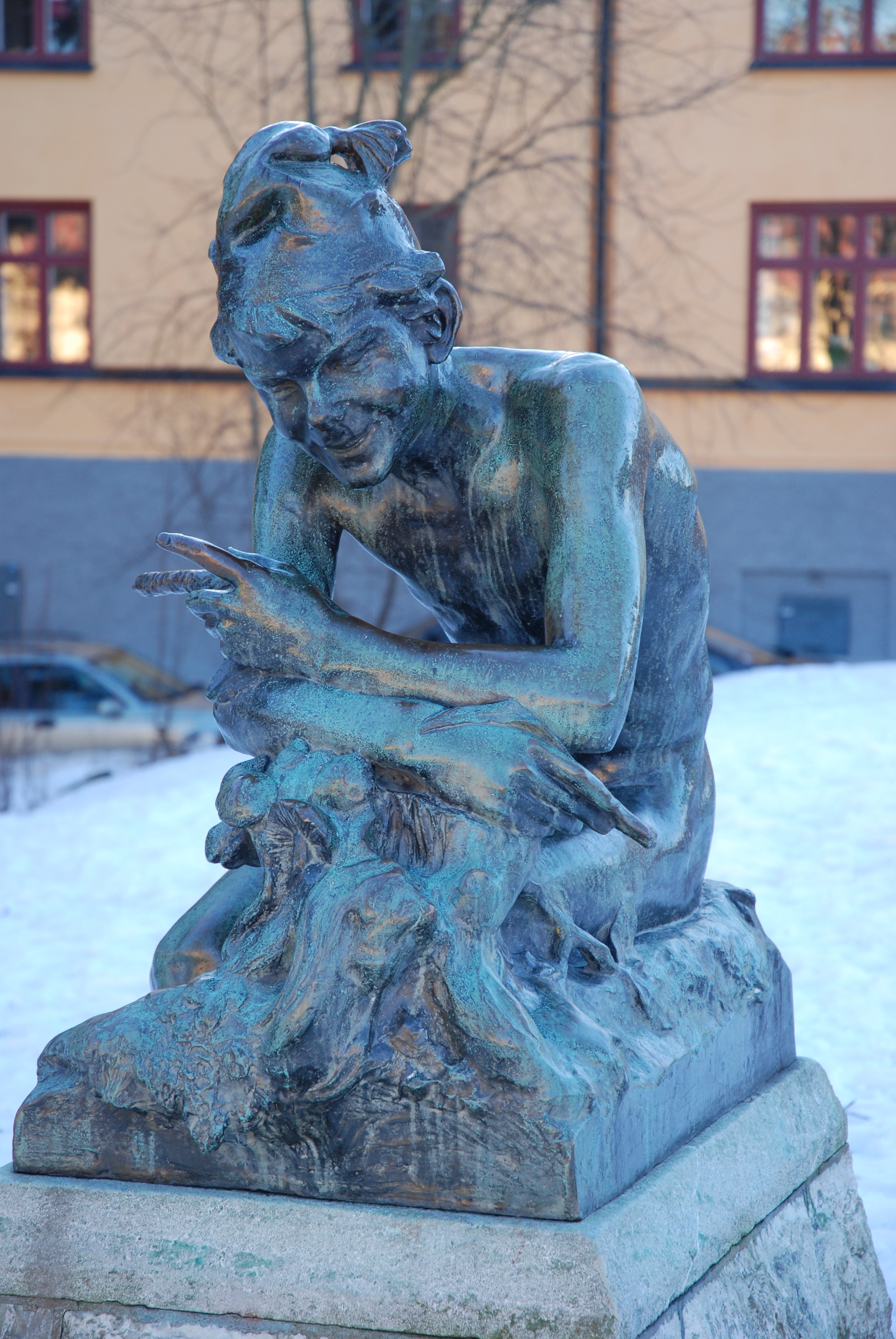 Puck,sculpture by Carl Andersson, bronze, 1912, Aprilvägen, Junikullen, Midsommarkransen, Stockholm